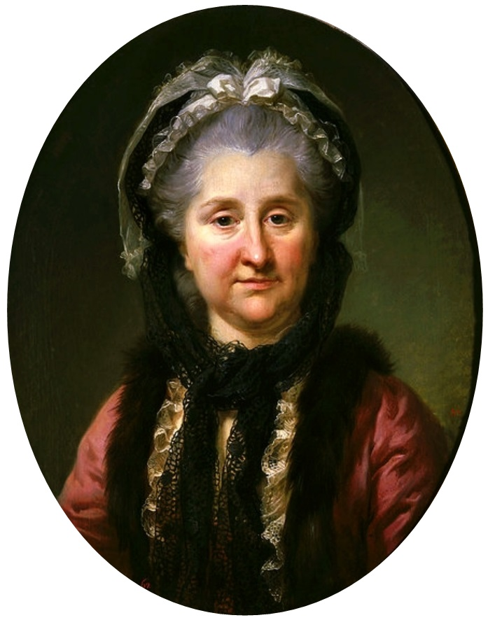 Ludwika Zamoyska née Poniatowska (1728-1804)